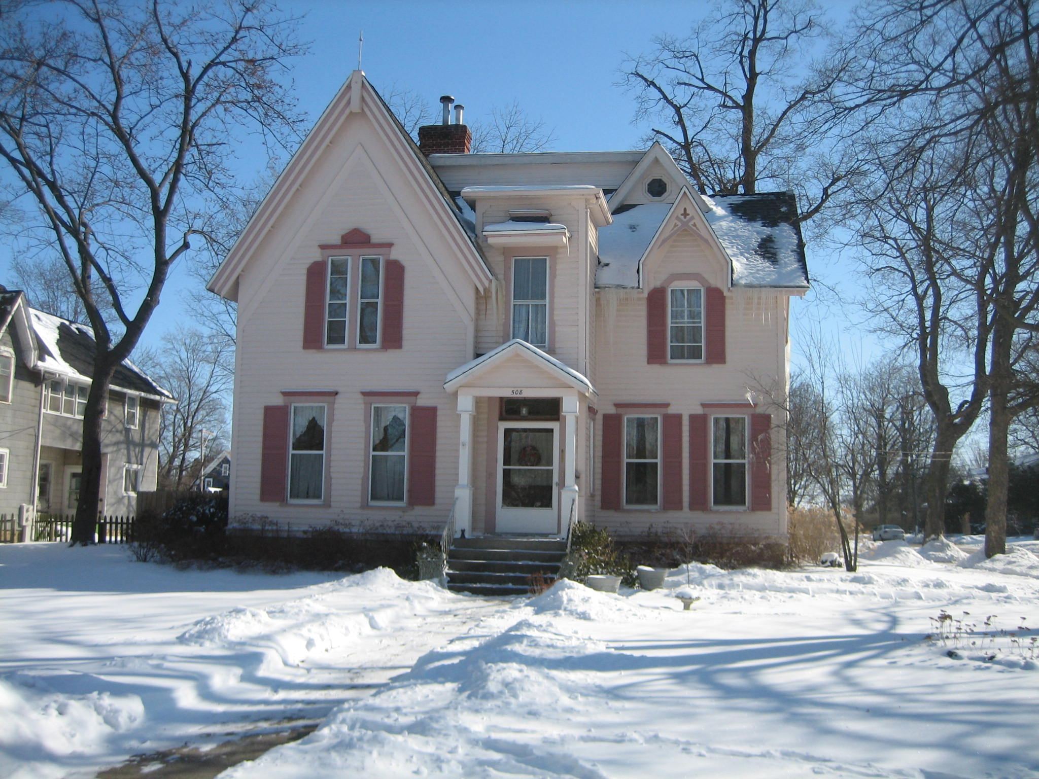 508 Somonauk St, Byers/Faissler House, Sycamore, Illinois. Sycamore Historic District, National Register of Historic Places.